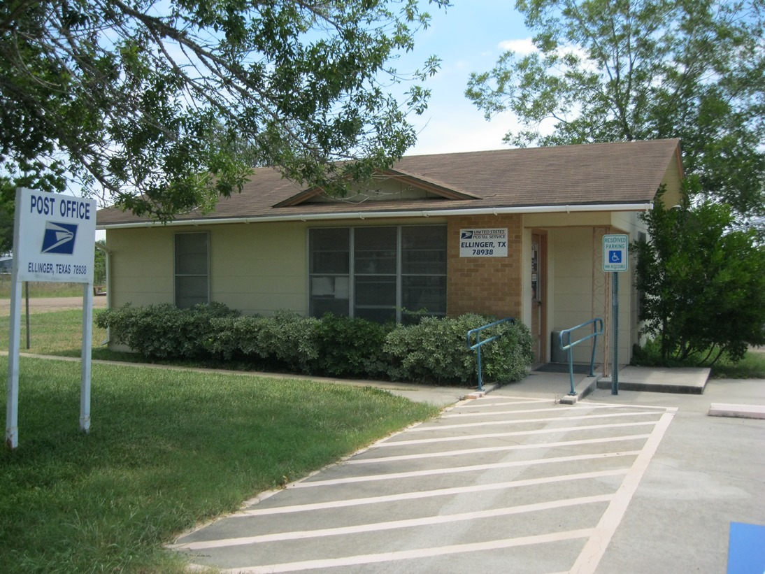 Photo shows the US Post Office on FM 2503 in Ellinger, Texas. View is to the southeast.